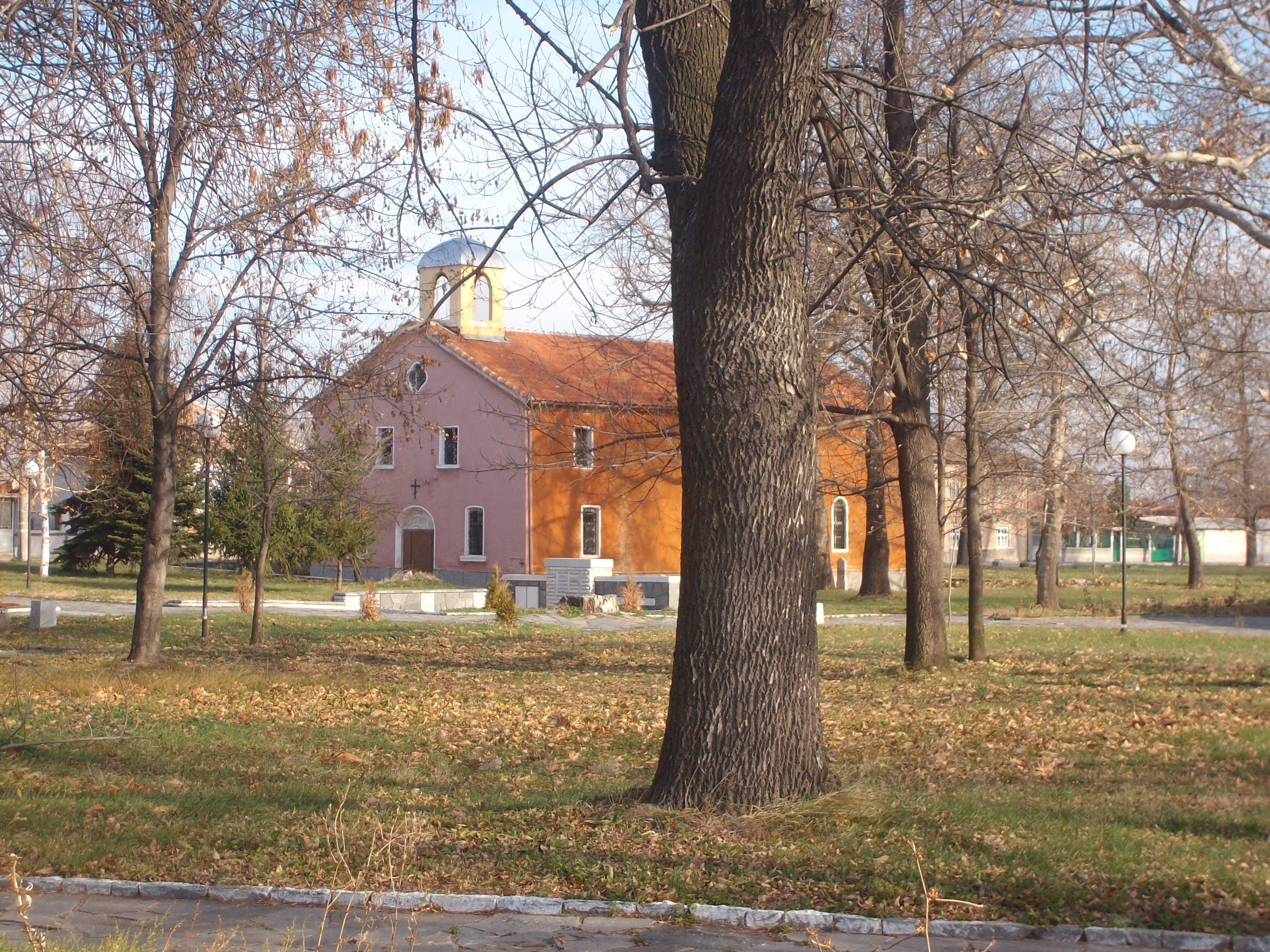 The church in village Patriarch Evtimovo with the park. Bulgaria